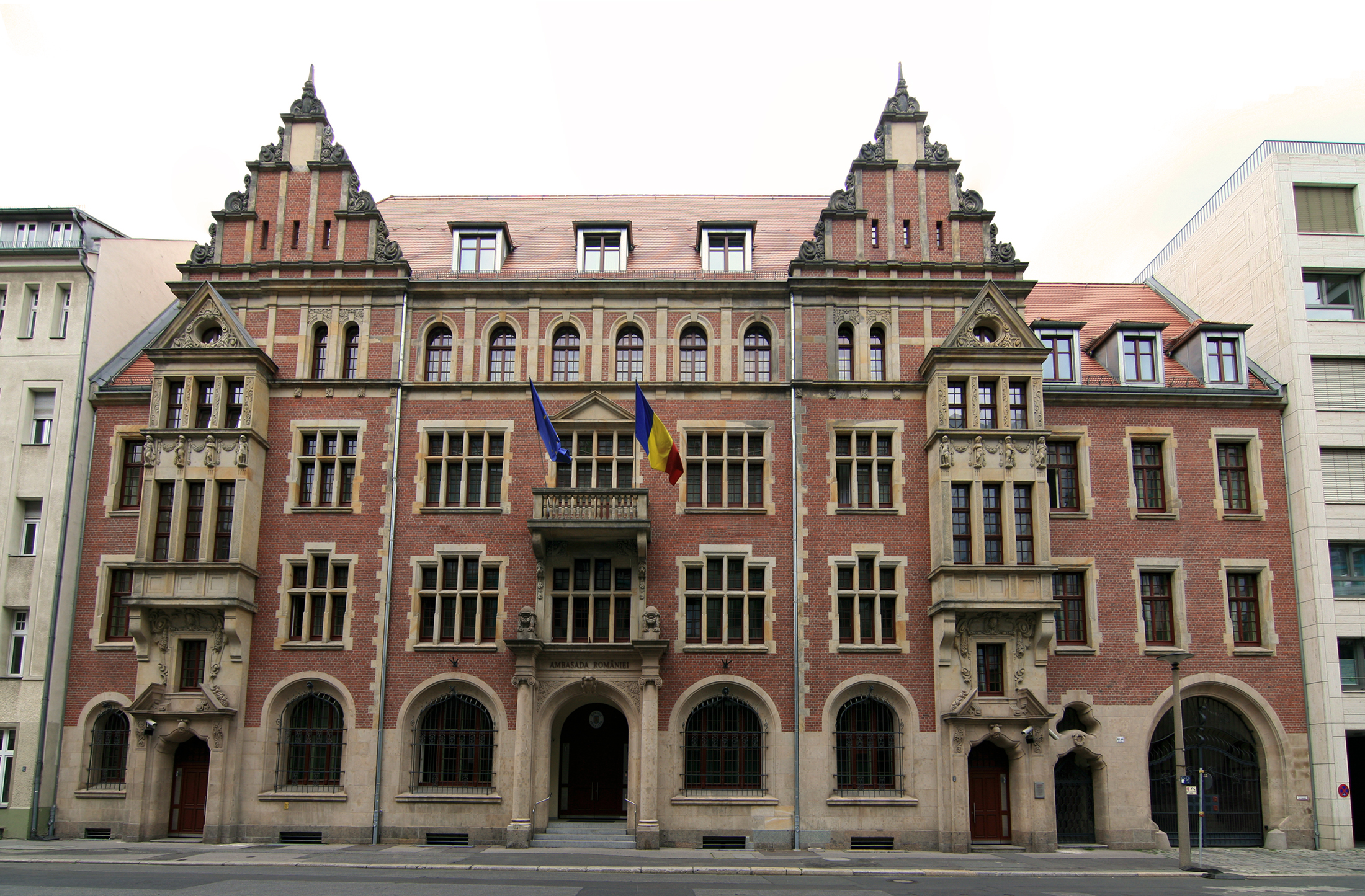 Dorotheenstrasse 62-66, Berlin. Rumanian embassy in Germany.